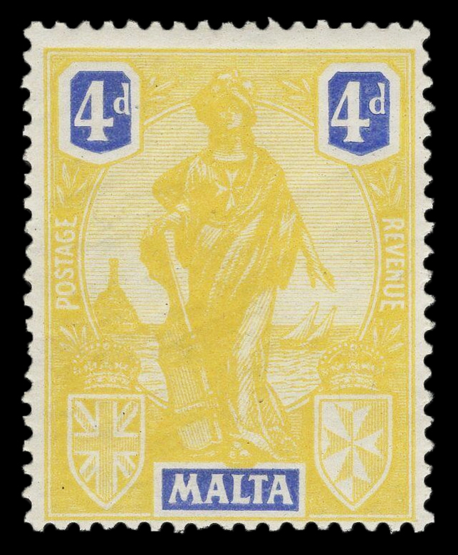 Malta 1922 Melita 4d yellow & bright blue stamp in mint condition